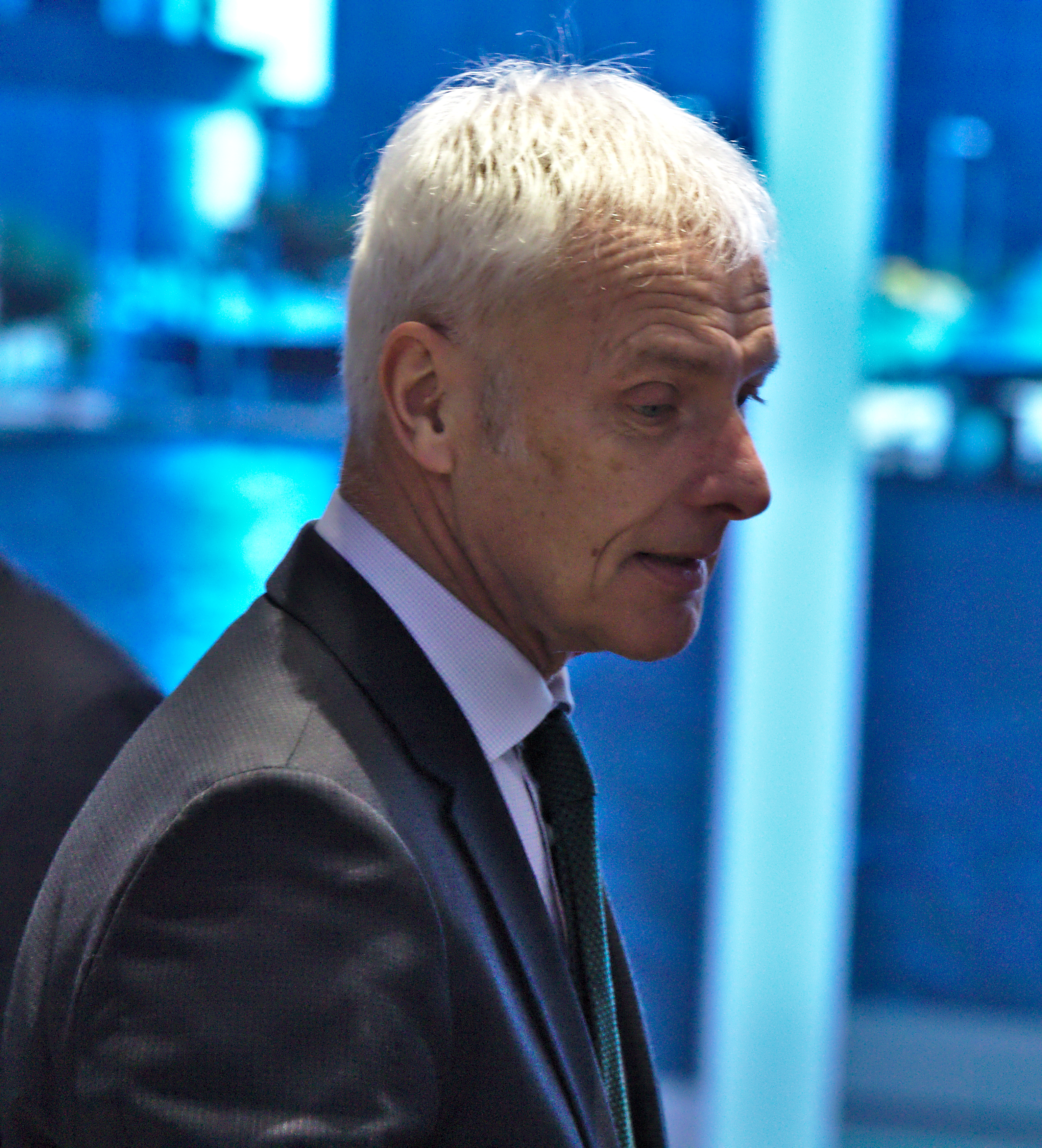 Matthias Müller at Geneva Motorshow 2018